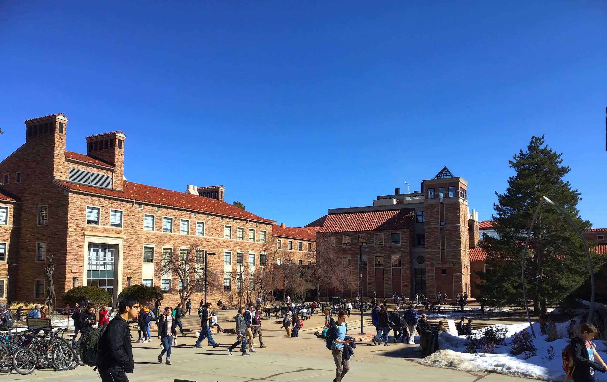 Near the University Memorial Hall